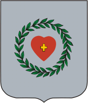 Borovsk (Kaluga oblast), coat of arms (1777)